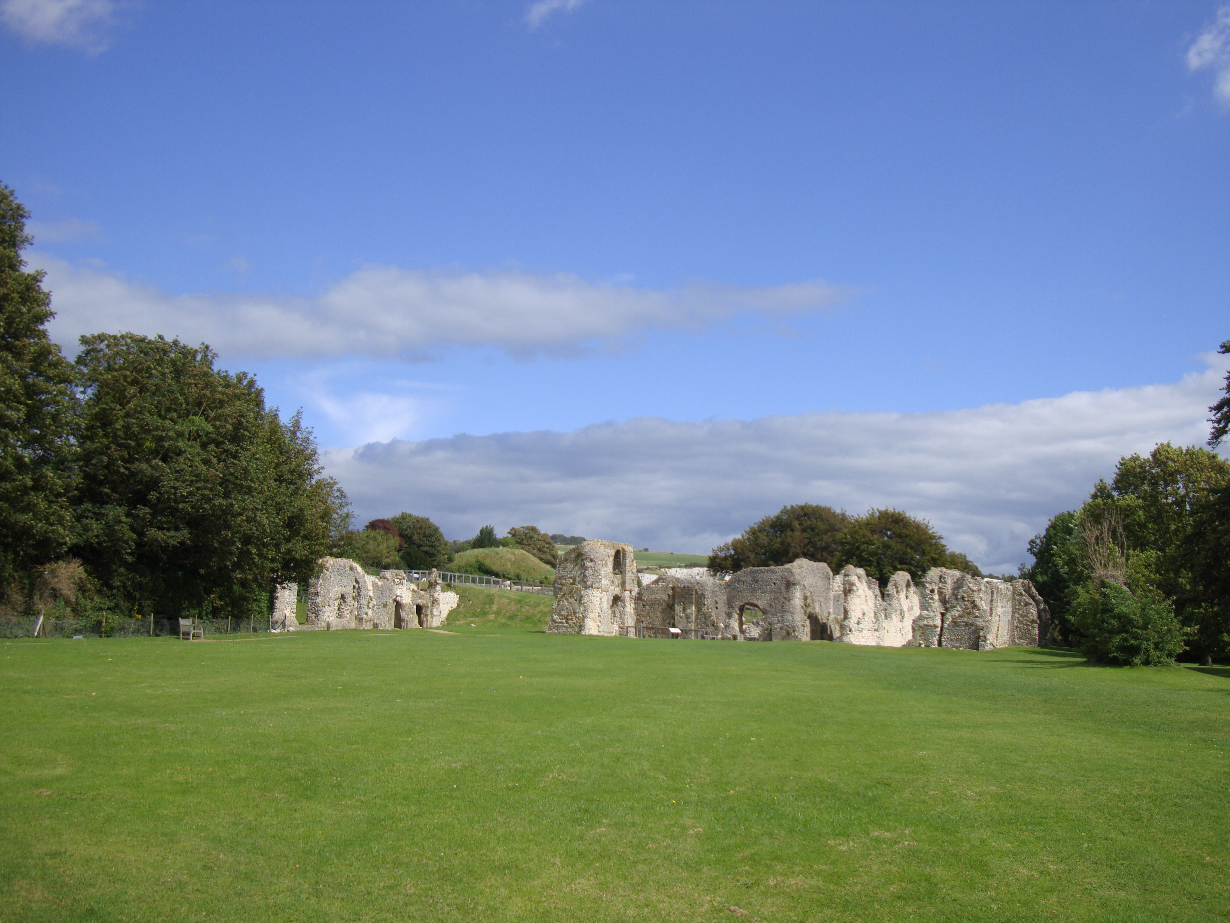 Photograph of Lewes Priory, East Sussex, England